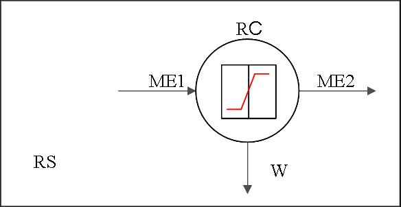 Generalized block diagram of th molecular power system. Describes the structure and principle of operation of the system